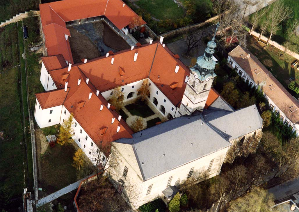 Szécsény, Hungary, aerial photography